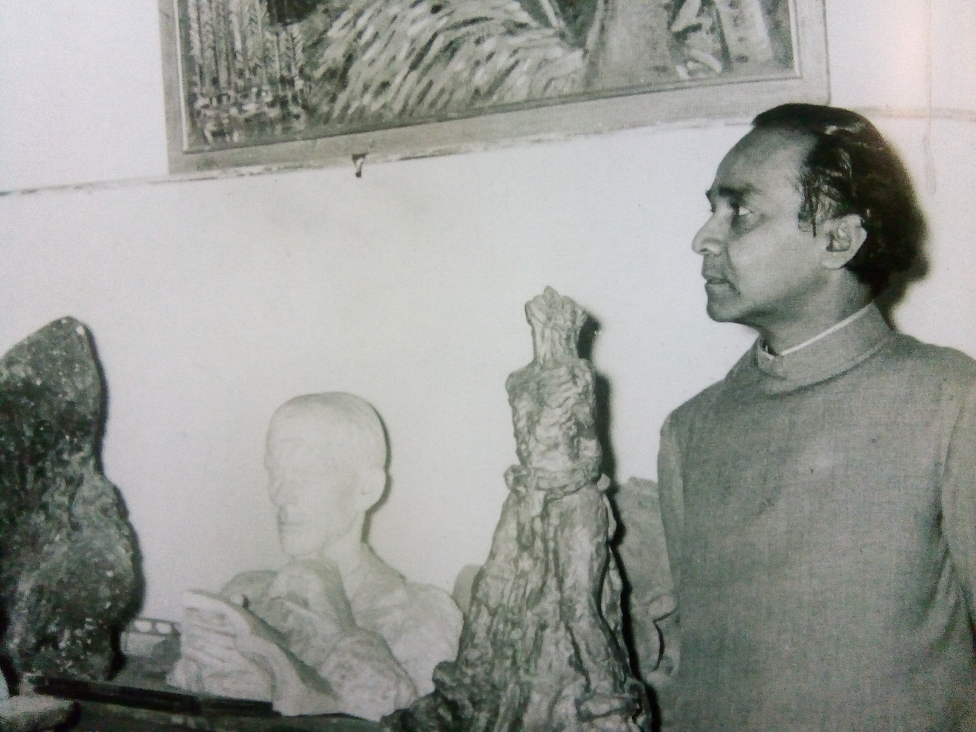 The first art master at The Doon School, Sudhir Khastgir